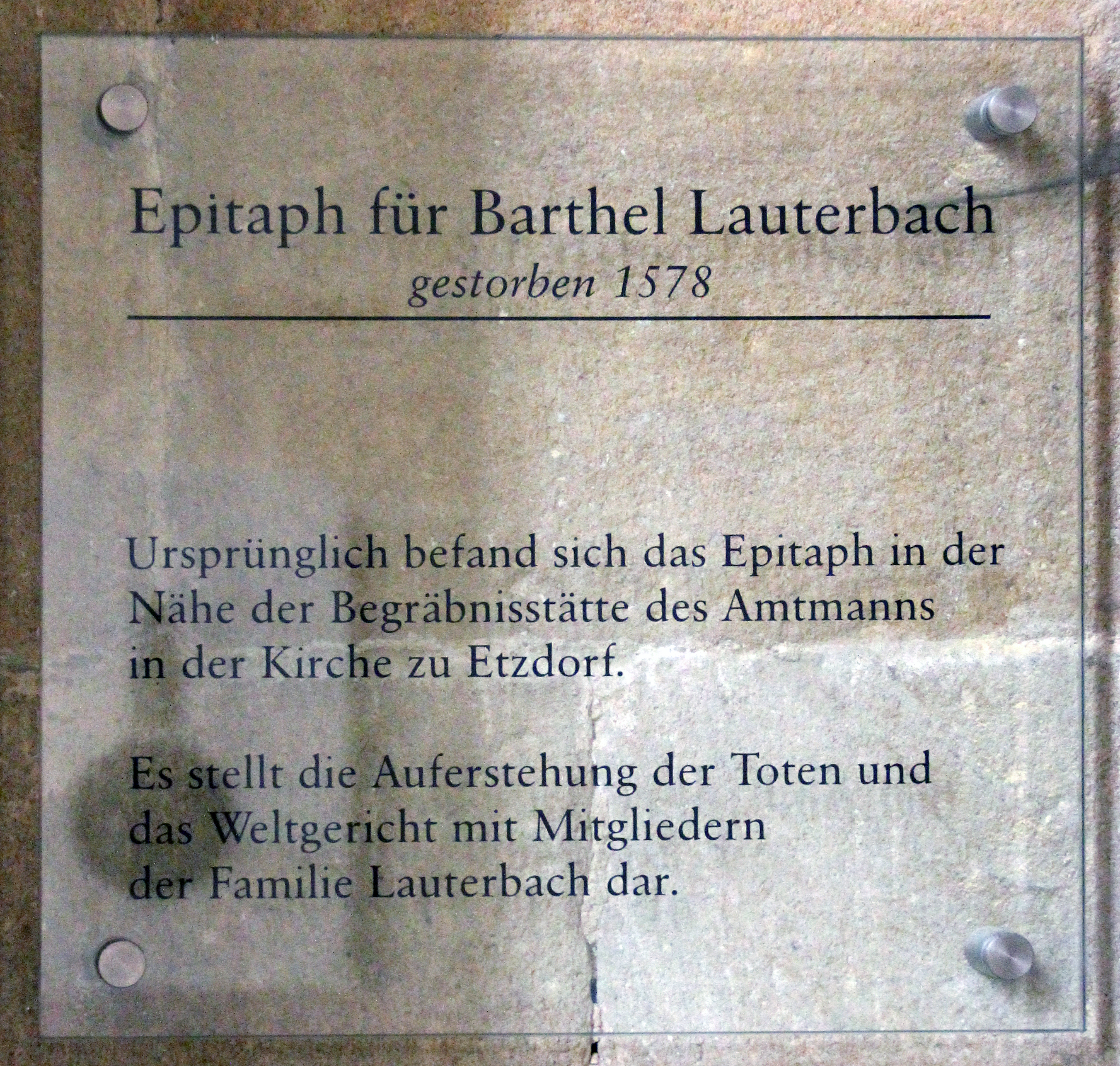 Memorial plaque, Epitaph for Barthel Lauterbach, Domplatz, Meißen, Germany